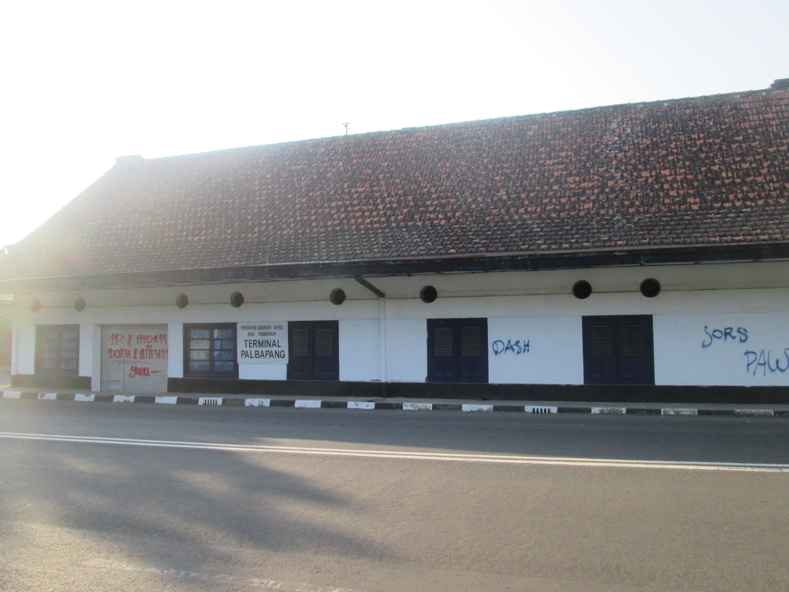 This is terminal station for Jogjakarta-Palbapang Railway Line. This is Palbapang station. There is a name board for "terminal Palbapang." Now the station becomes bus terminal.